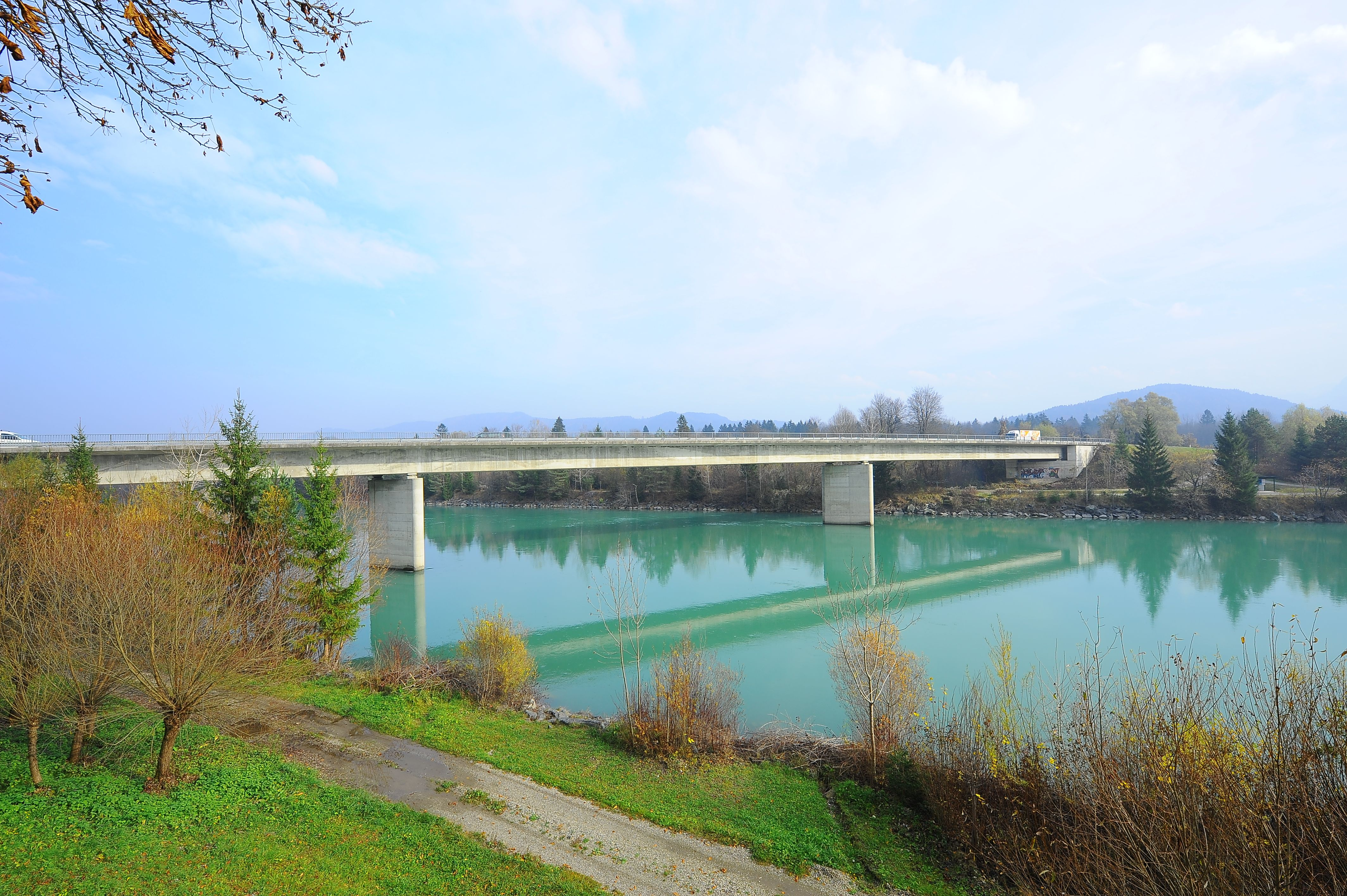 Anna bridge across the Drava at Saager, municipality Grafenstein, district Klagenfurt Land, Carinthia, Austria